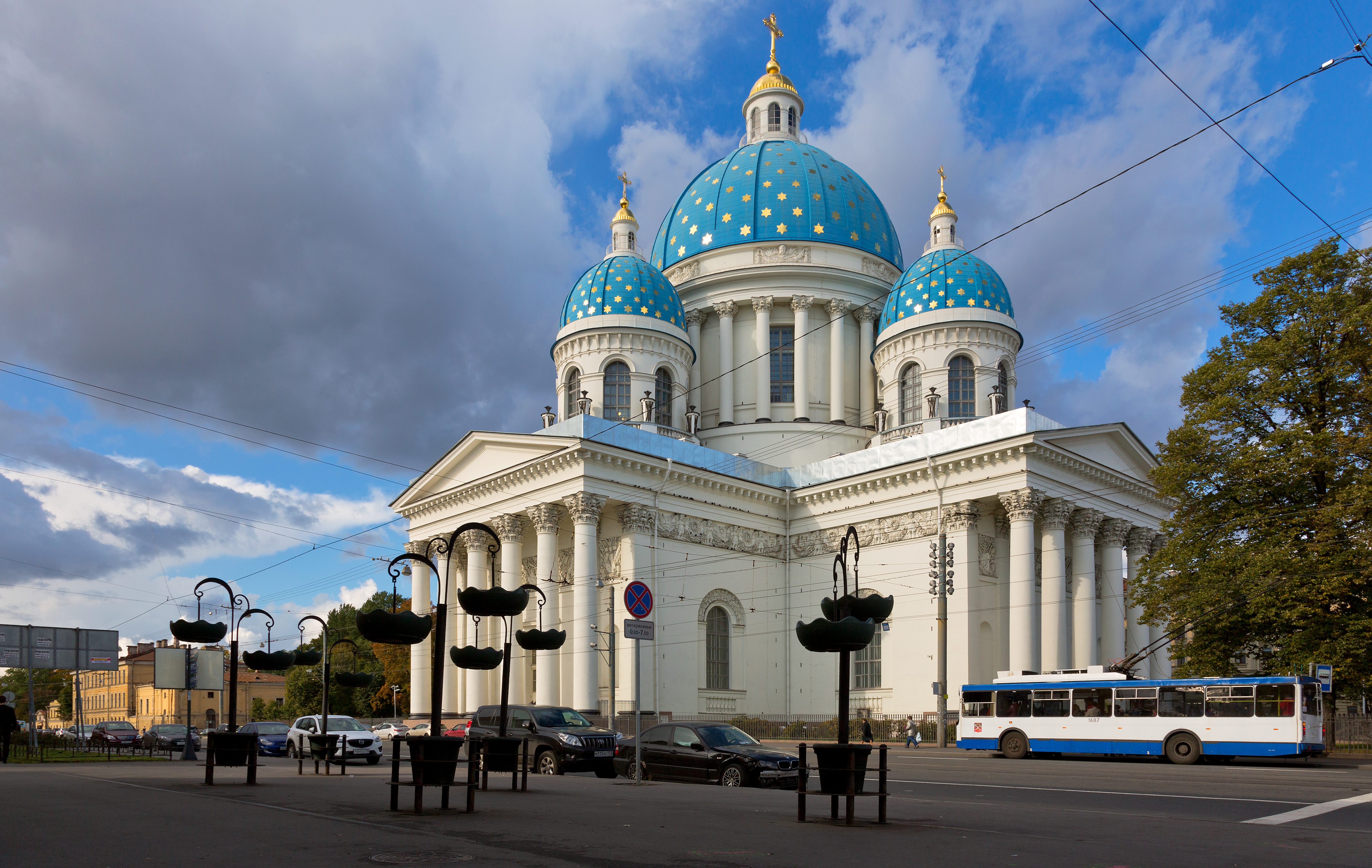 Trinity Cathedral in Saint Petersburg